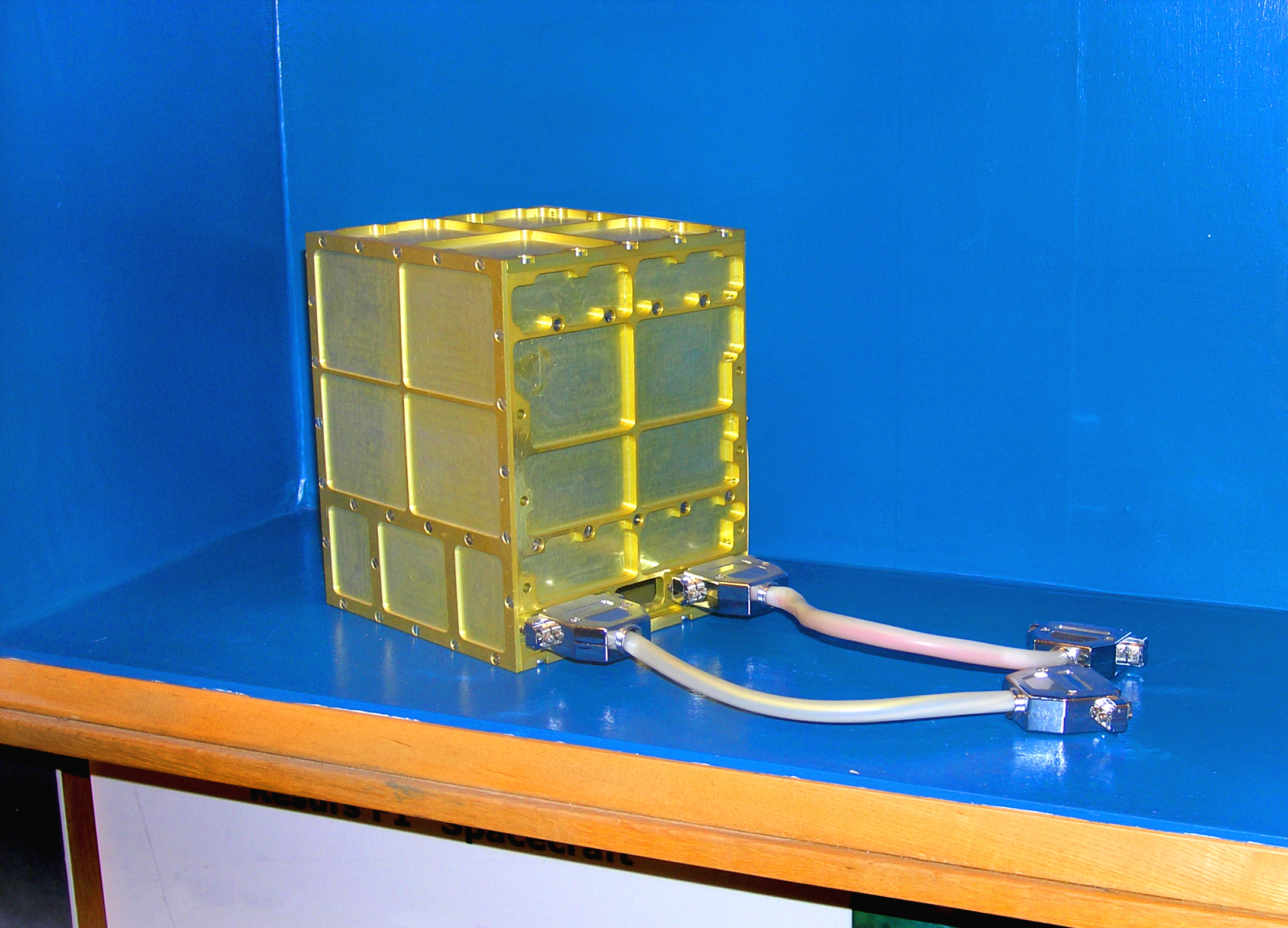 MACEK accelerometer in the Czech Astronomical Institute in Ondřejov